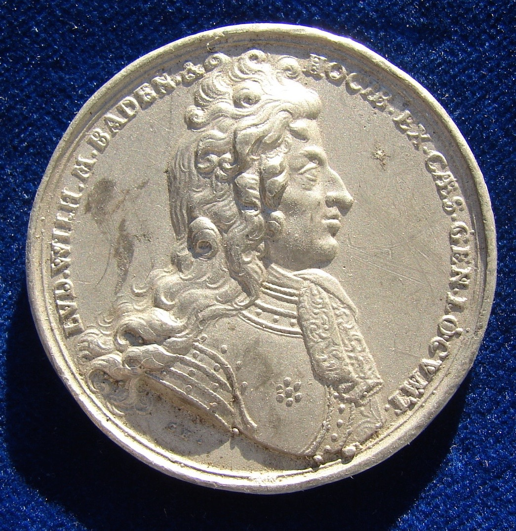 Pb medallion D. = 43 mm. Louis William, Margrave of Baden ("Turk Louis"), 1677 - 1707 As a military commander in the service of the Holy Roman Empire, in 1689 he was made chief commander of the Imperial army in Hungary, where he scored a resounding victory against the Ottomans at Slankamen in 1691. Portrait r., around: "LVD. WILH. M. BADEN. & HOCHB. EX. CAES. GEN. LOVCUMT."/ 14 lines: "DEO FORTVNANTE, ARMIS INVICTISS. LEOPOLDI M.DVCE LVD. WILH. M. BAD. ET HOCHB. AD SALANKEMEN, PROP. PETERWARAD. D. 19./9. AVG. A. 1691. TVRC. 25000.DELET. CASTRA EX PVGN. TORM. 158 CAPTA, TAVRI 10000. TENT. TOTIDEM, CAVD. EQ. 4. SIGNA PRET. 14. EQVI 5000. CAMEL. ET MVL. 2000. DESIDERATIS MAGN. VIZIR. AGAIANITZ. AD SERASK VIVAT AVSTRIA". Julius 375; Goppel 1319. Condition: EXTREMELY FINE.